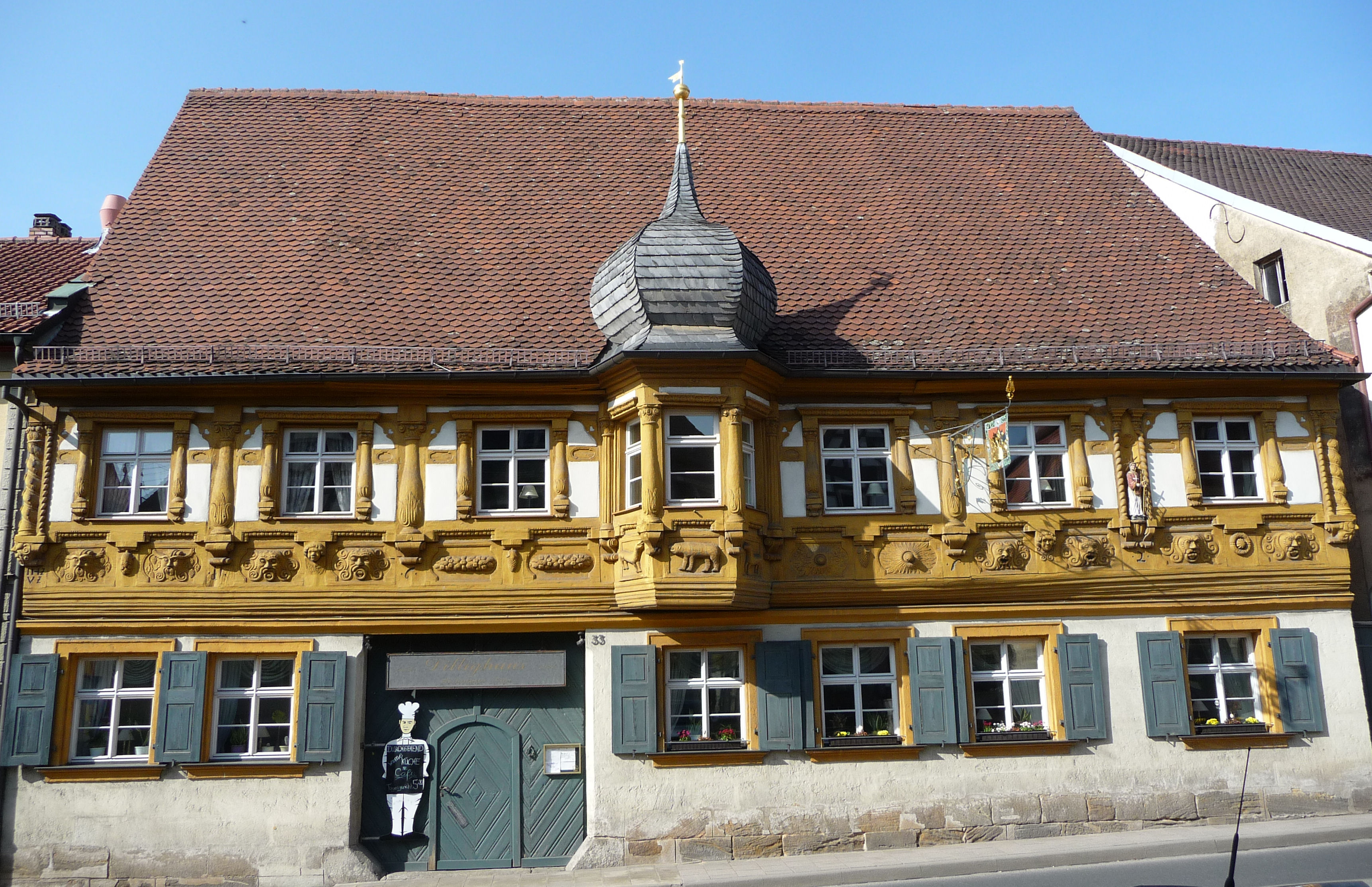 Scheßlitz, Landkreis Bamberg, Germany